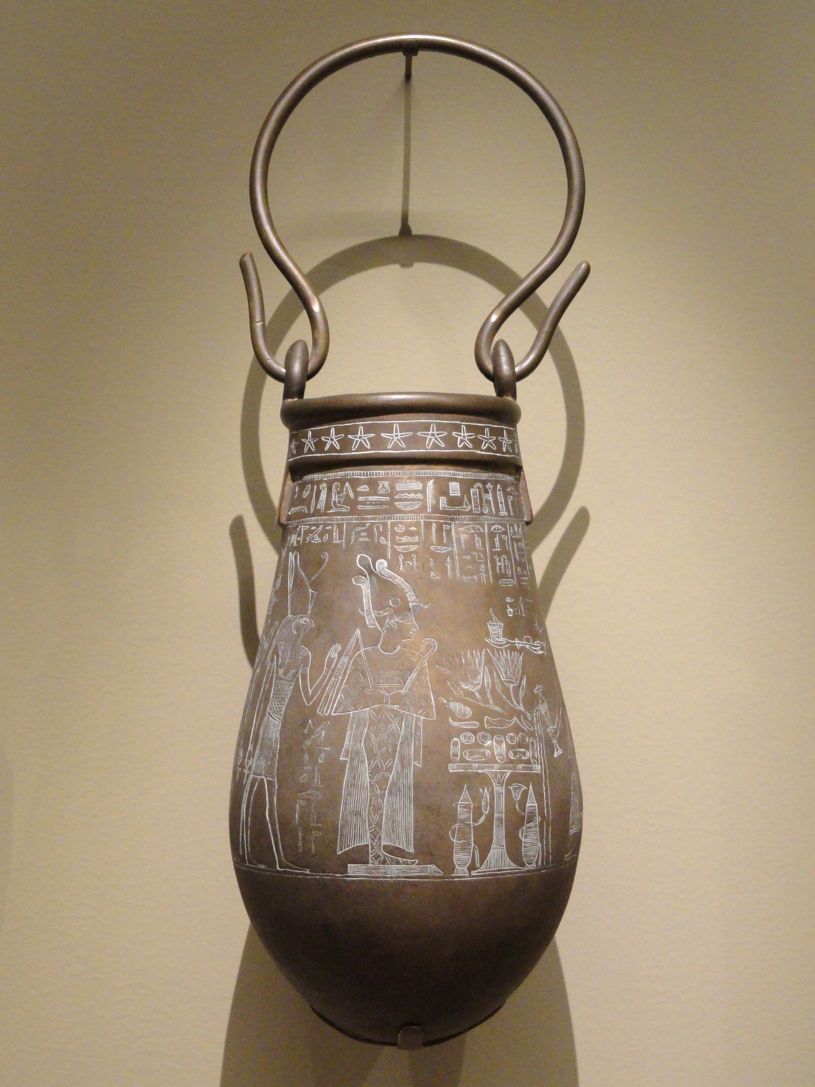 Exhibit in the Cleveland Museum of Art, Cleveland, Ohio, USA. This artwork is old enough so that it is in the public domain.